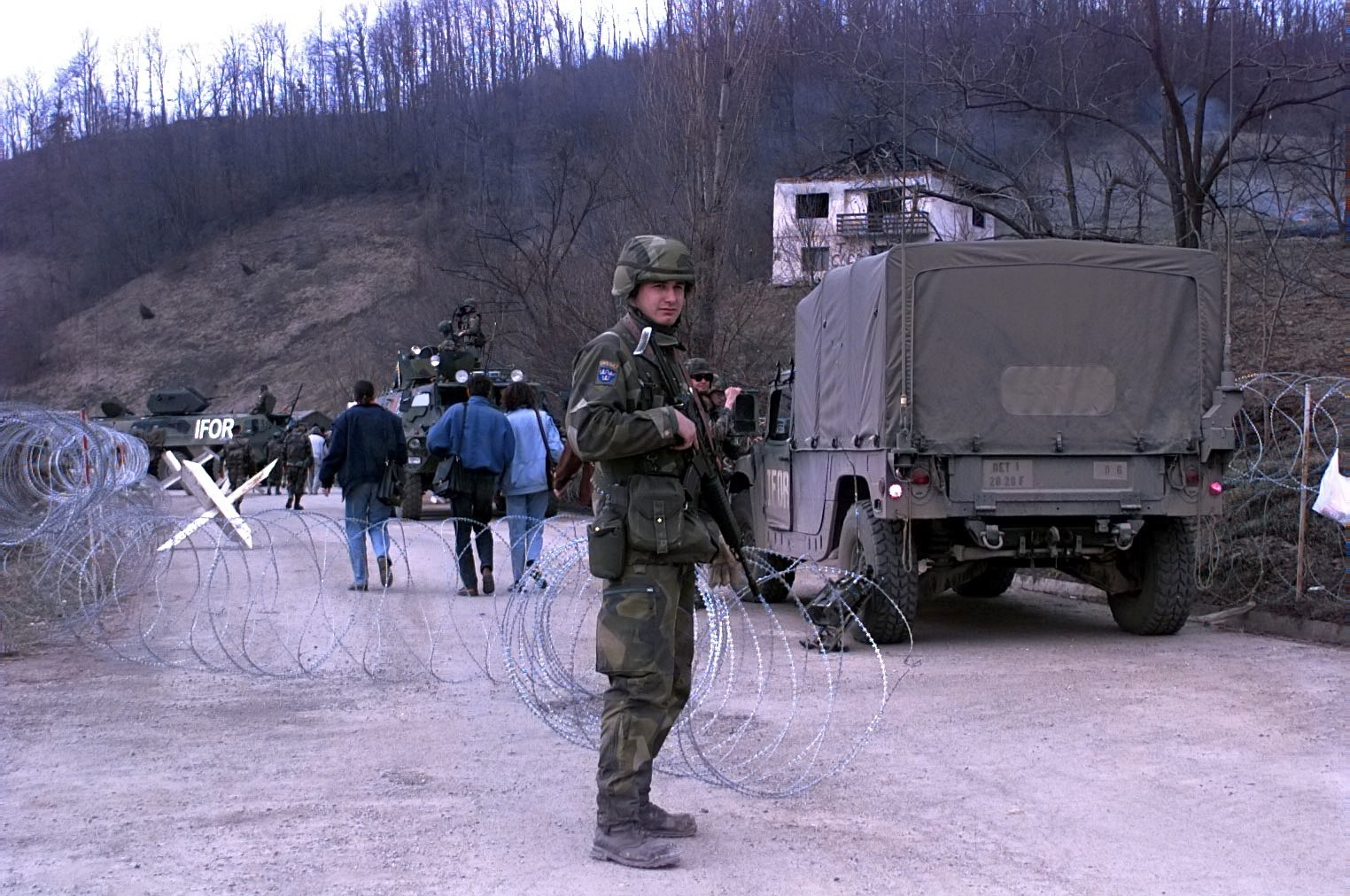 A Swedish soldier guards the gate while the media passes through to attend the Joint Civilian Commission meeting on March 26, 1996 at Nordic Polish Brigade near the town of Doboj, Bosnia-Herzegovina during Operation Joint Endeavor.